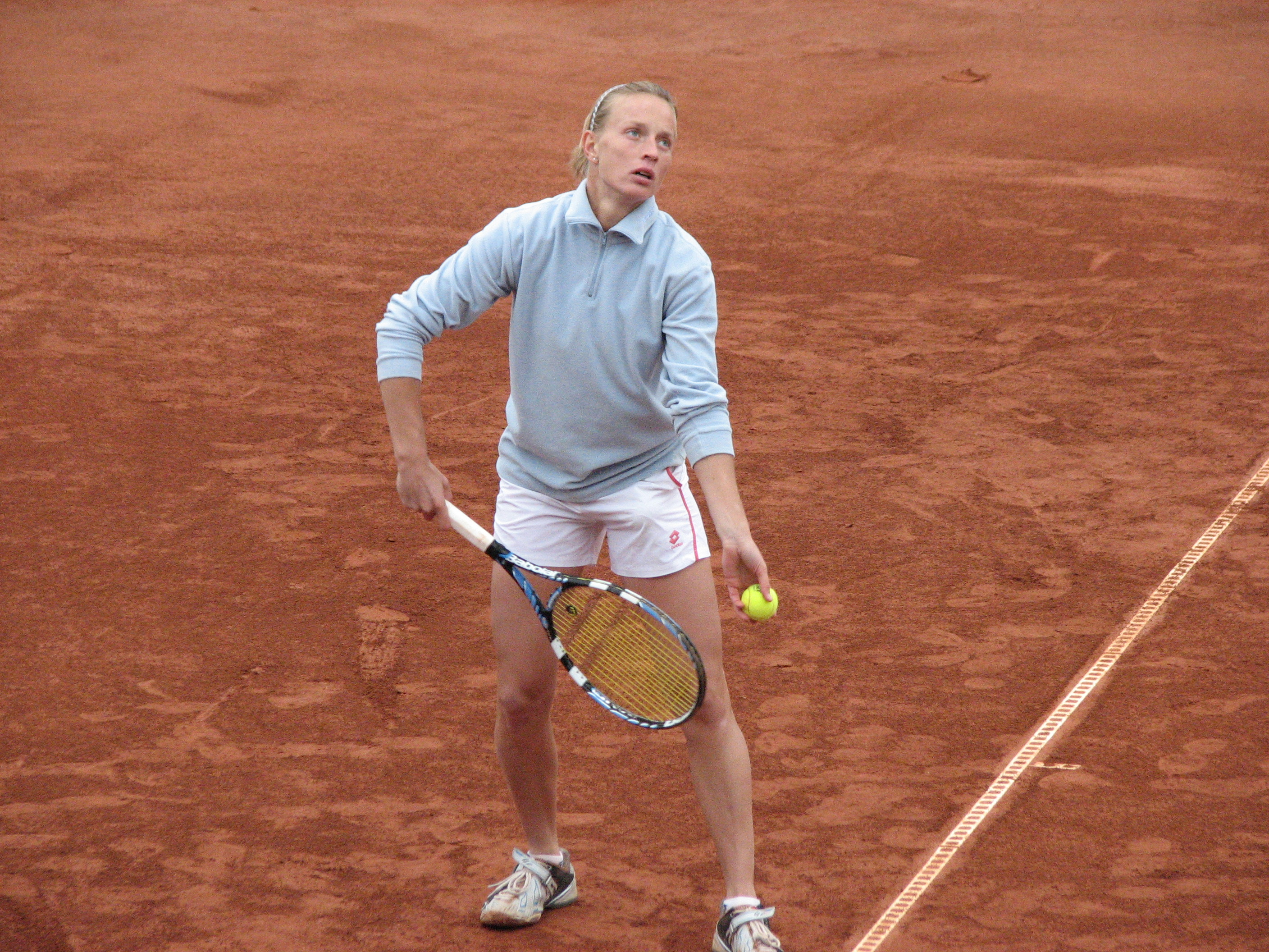 Maret Ani (Allianz Cup Sofia 2008)